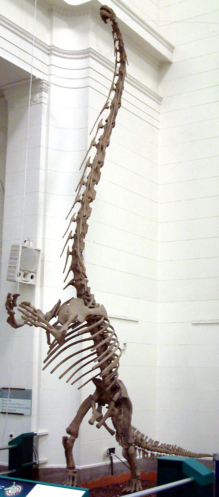 Mamenchisaurus sp. adolescent sauropod dinosaur from the Upper Jurassic of China (public display, Field Museum of Natural History, Chicago, Illinois, USA) (cast based on specimens from Xinjiang Province and Sichuan Province). Sauropod dinosaurs were the largest terrestrial animals ever. They all have the same basic body plan: large body with four walking legs, very long neck & tail, and a small head relative to body size. Sauropods were herbivores, and are often perceived as holding their heads & necks up high to reach vegetation normally out of reach to other organisms. Modern reconstructions of many sauropod species depict them with heads and necks held close to the horizontal, or at low angles above the horizontal.